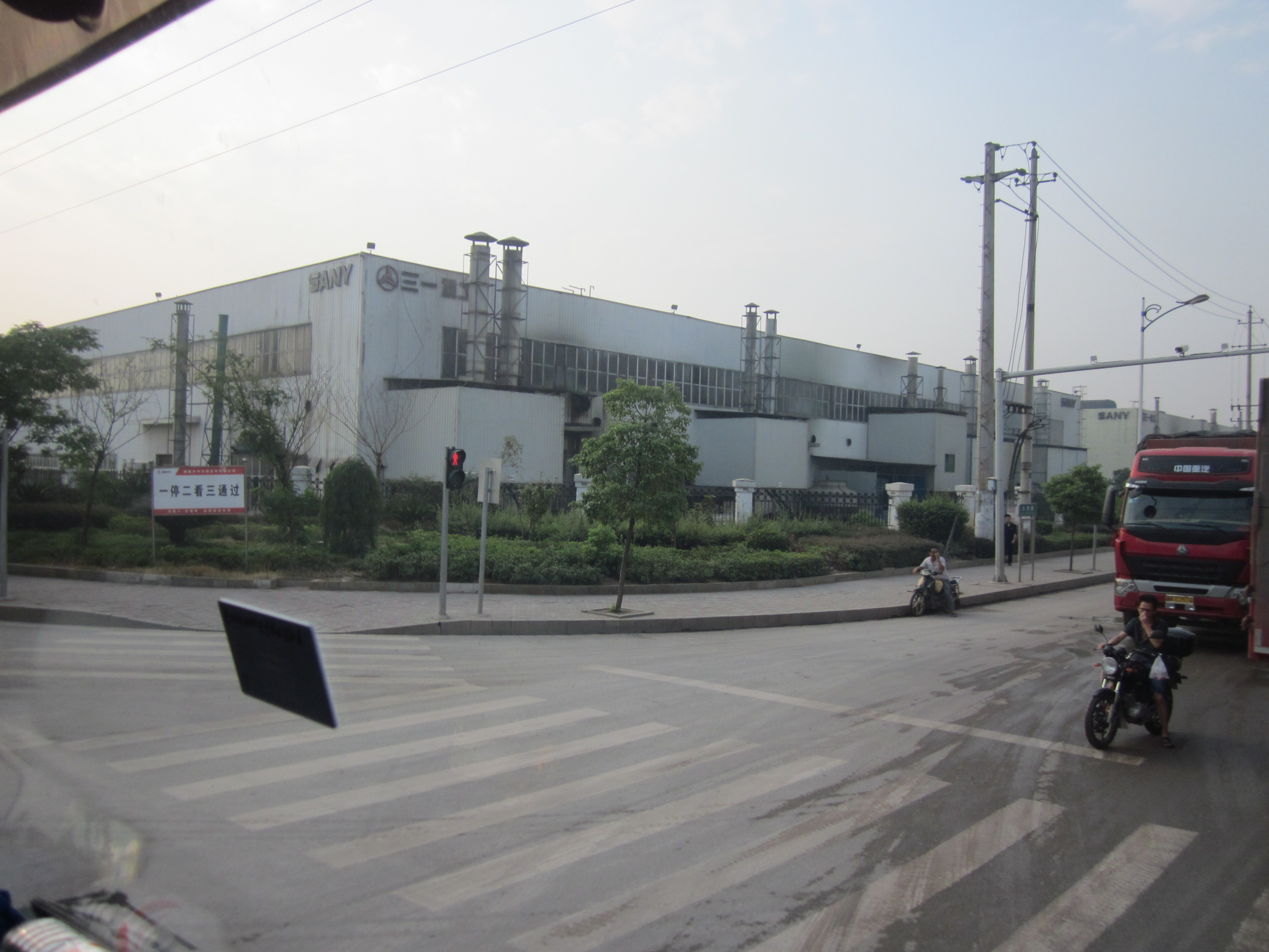 Sany (officially Sany Heavy Industry Co., Ltd.) (SSE: 600031) is a Chinese multinational heavy machinery manufacturing company headquartered in Changsha, Hunan Province.This photo shows Sany Loudi branch.